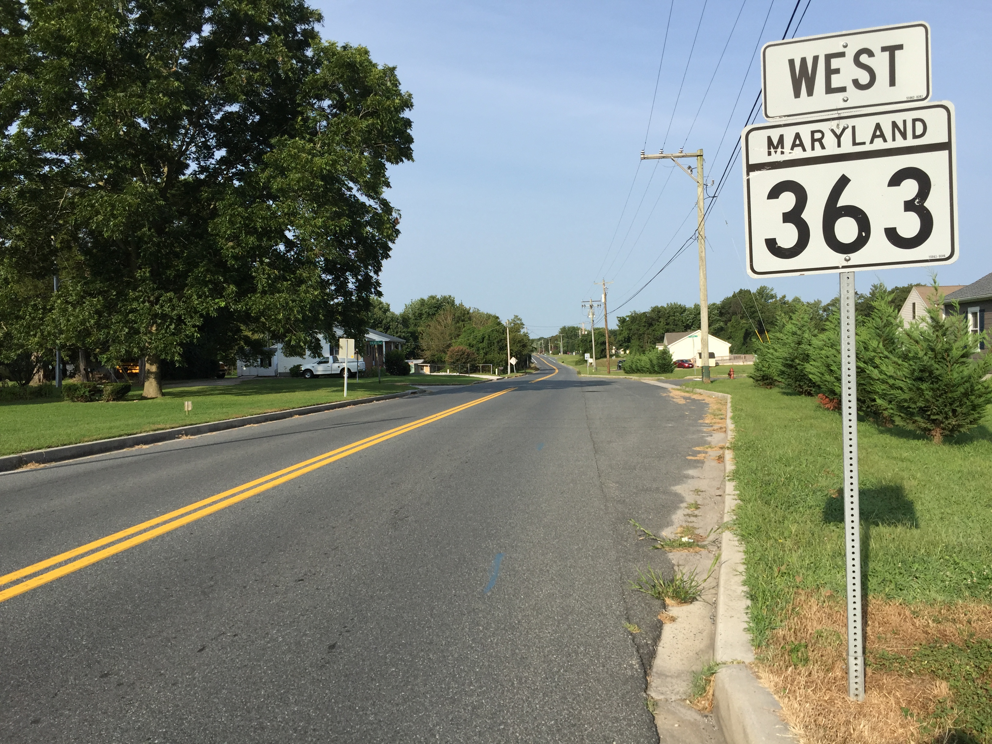 View west along Maryland State Route 363 (Deal Island Road) at Crisfield Lane in Princess Anne, Somerset County, Maryland